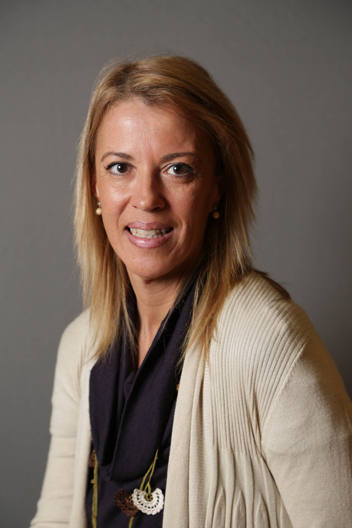 Candidats Eleccions Generals 2015 Annabel Marcos